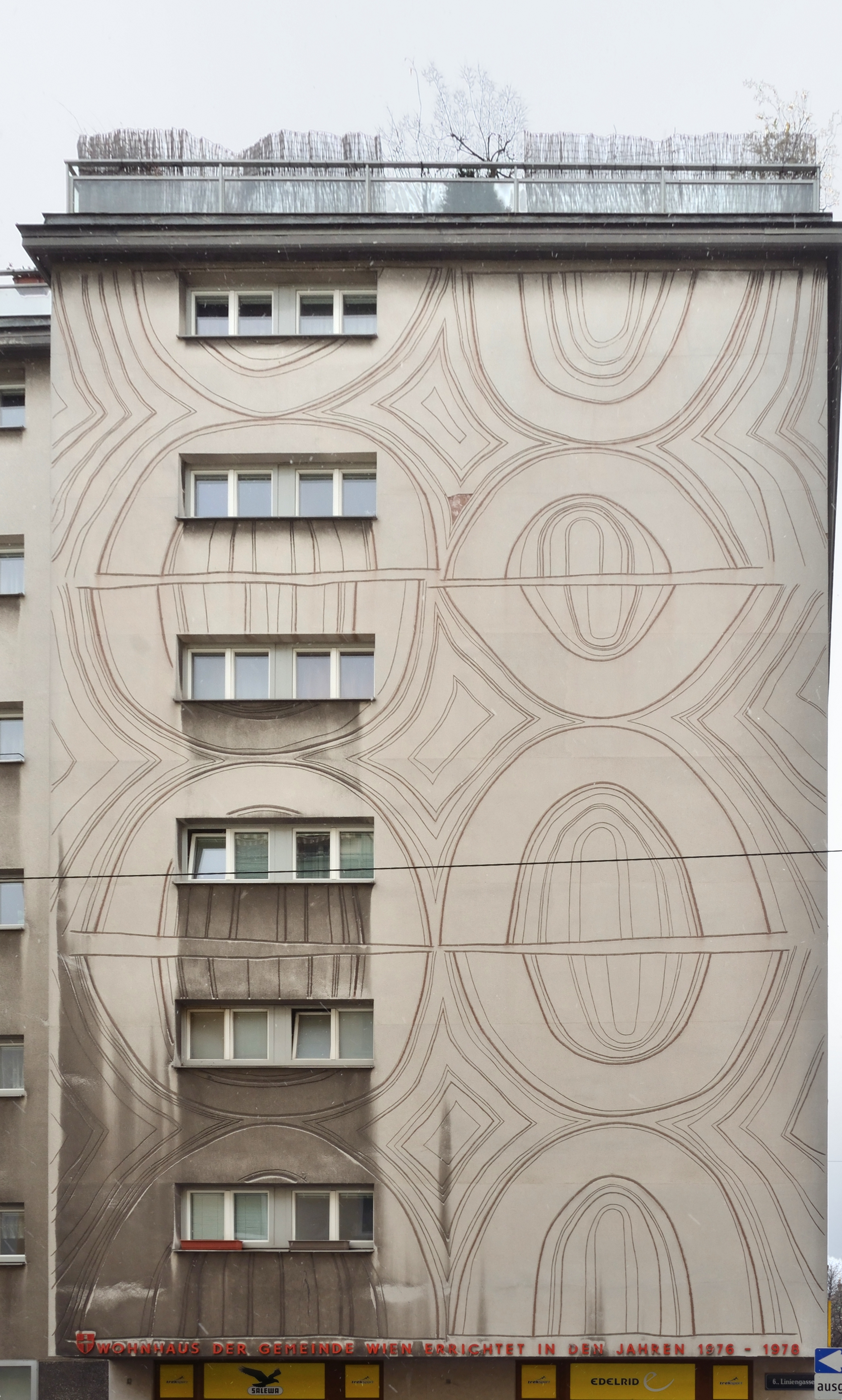 Linienkomposition by Johann Fruhmann created in 1978. Corner Liniengasse / Stumpergasse 16 (address), Mariahilf, Vienna